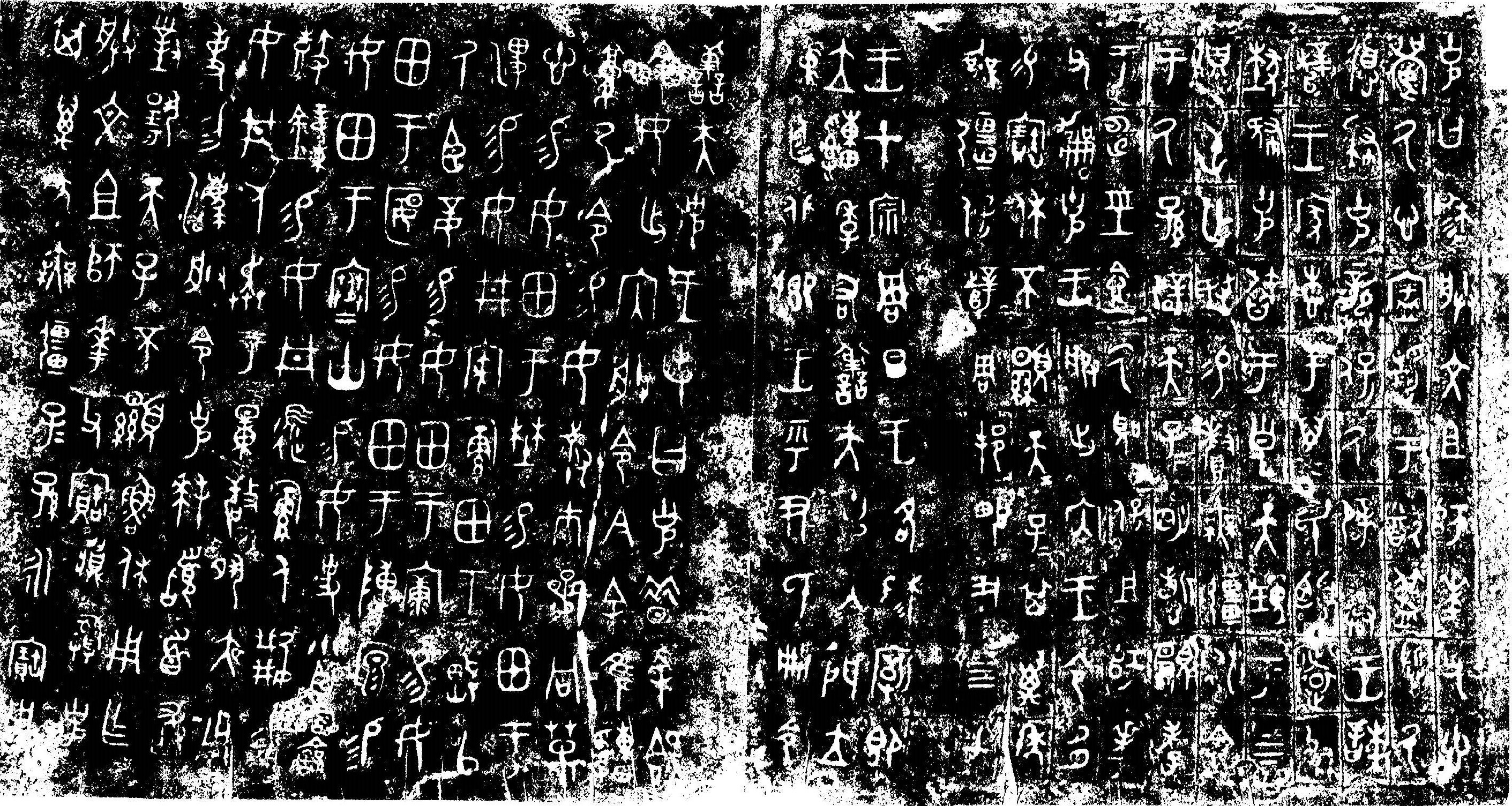 The bronze inscription on Da Ke ding.